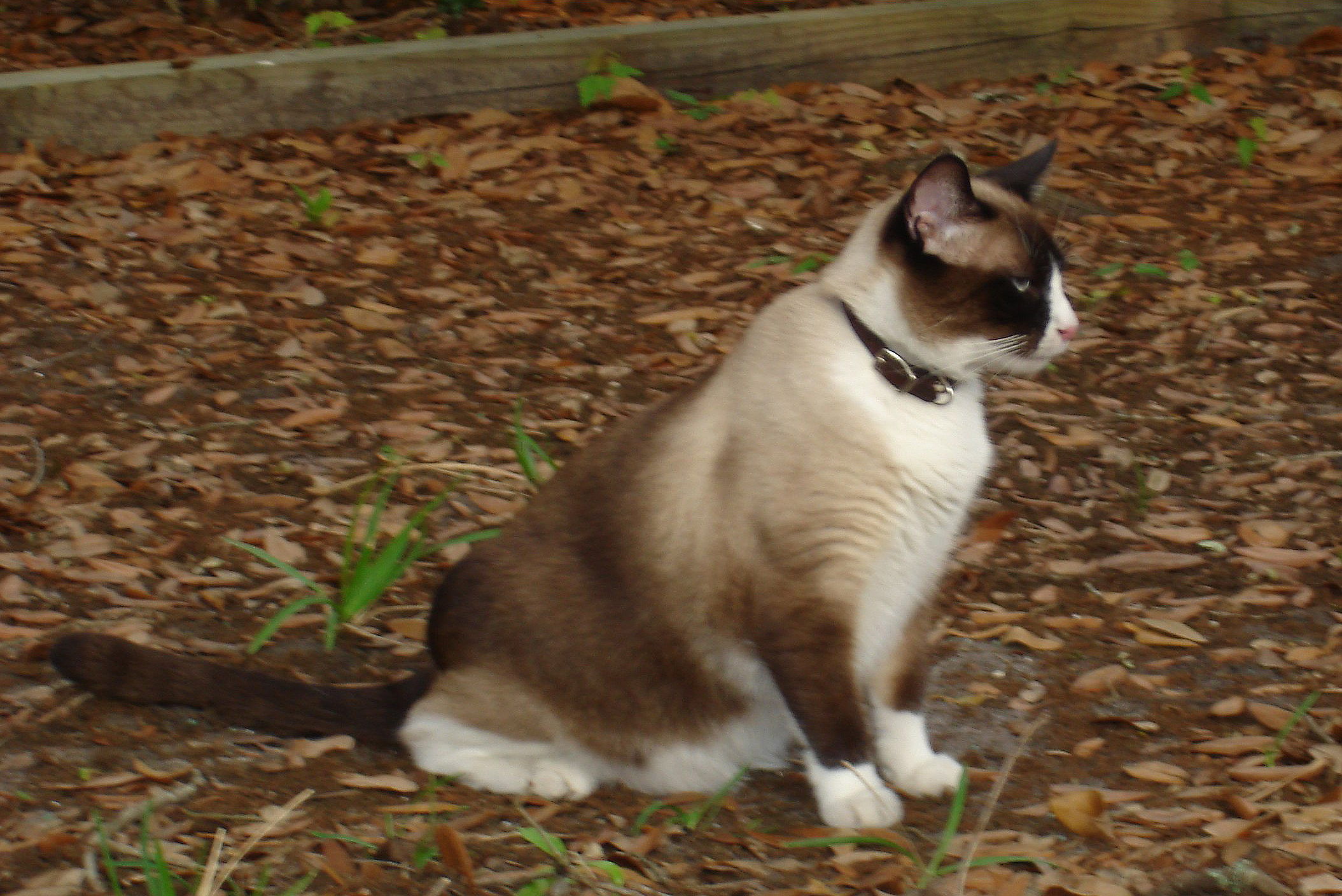 Mr. Slinky--Champion Snow shoe, with a darkening coat as is normal in aging.